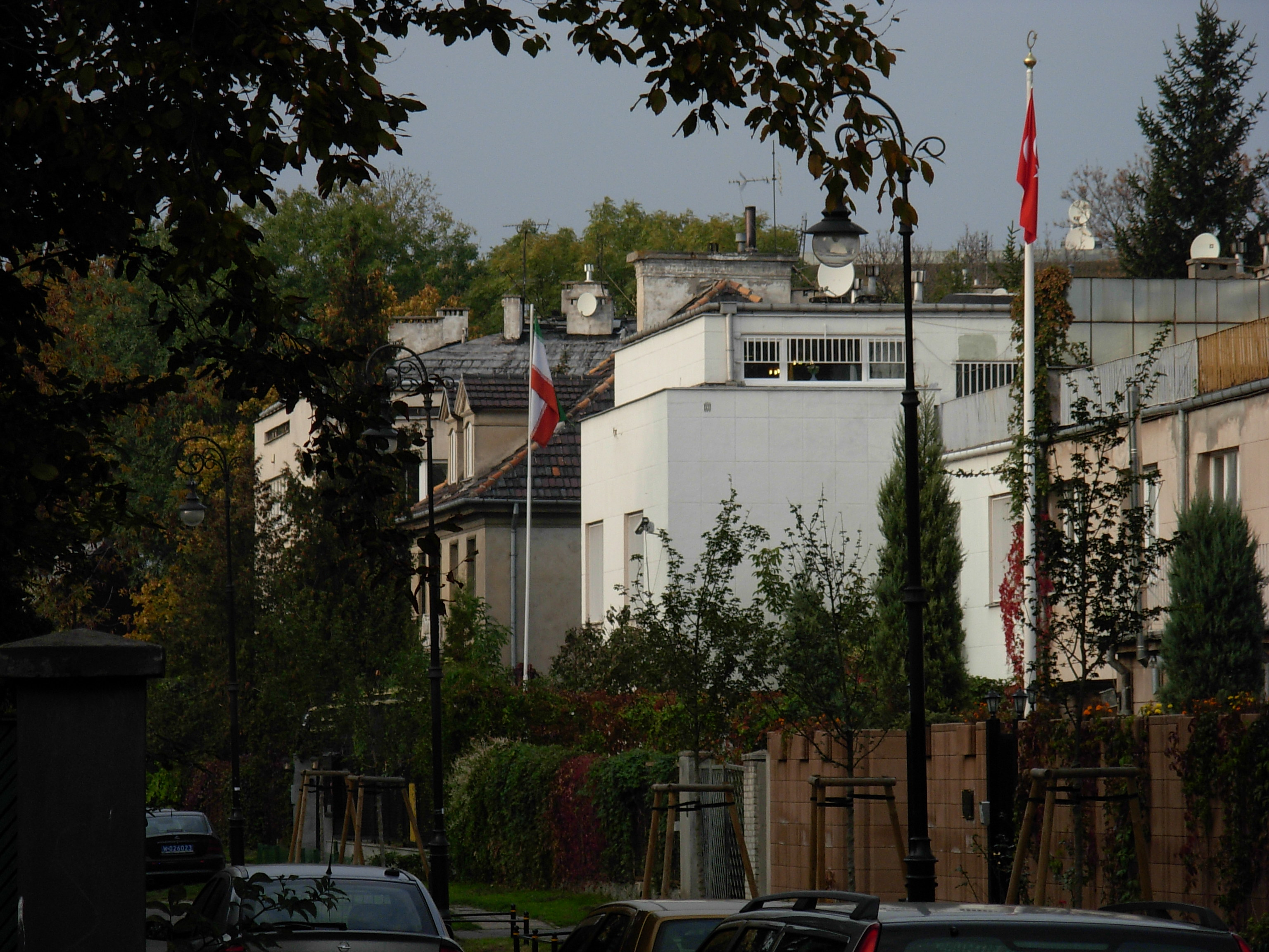 Embassy of Iran in Warsaw